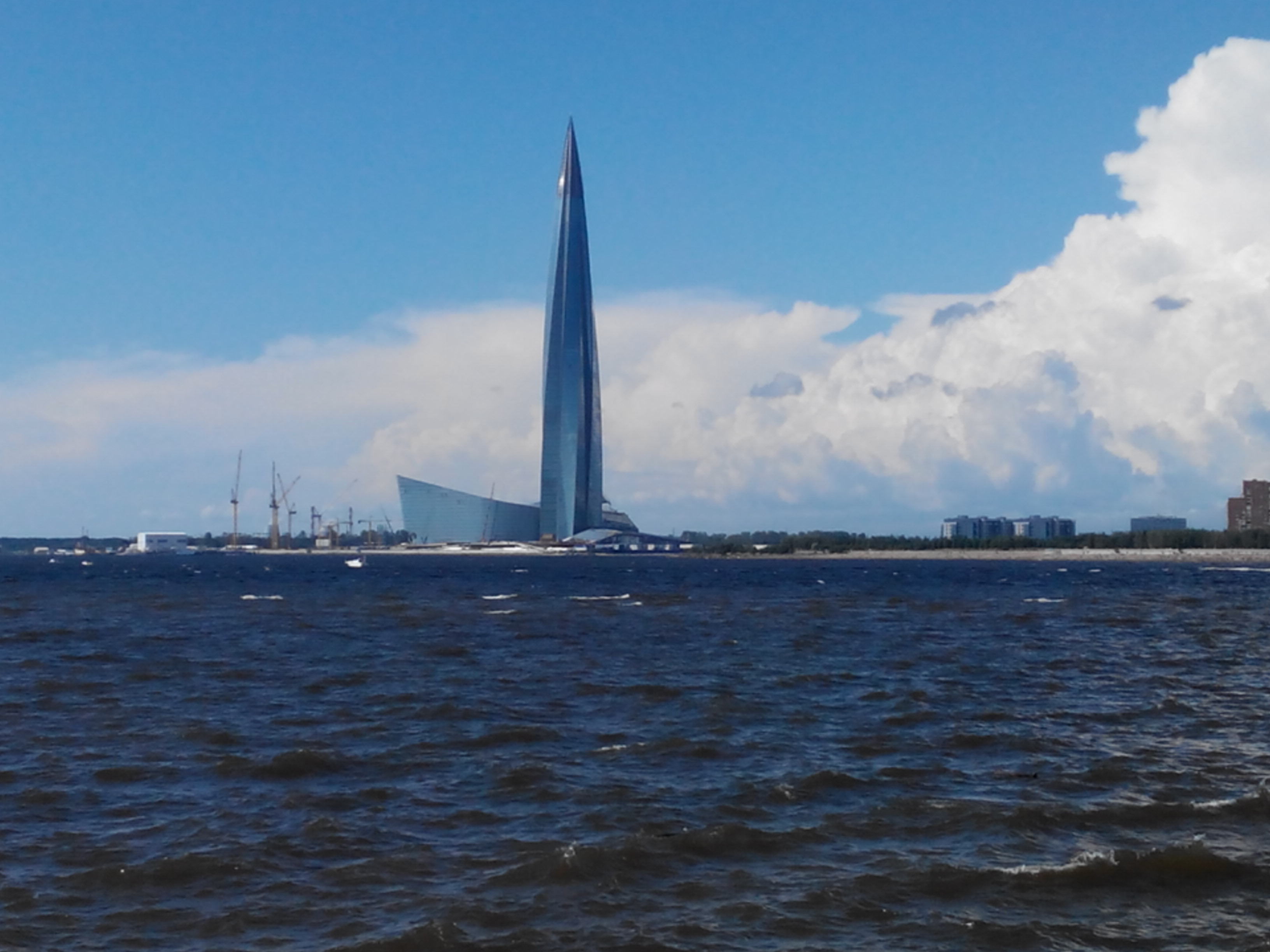 Lakhta Center Airat